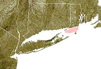 Block Island Sound, shown in shaded red, between the coast of Rhode Island (USA) and Block Island. Geographically, it is the eastward extension of Long Island Sound. Based on original public domain image courtesy of NOAA. © 2004 Matthew Trump